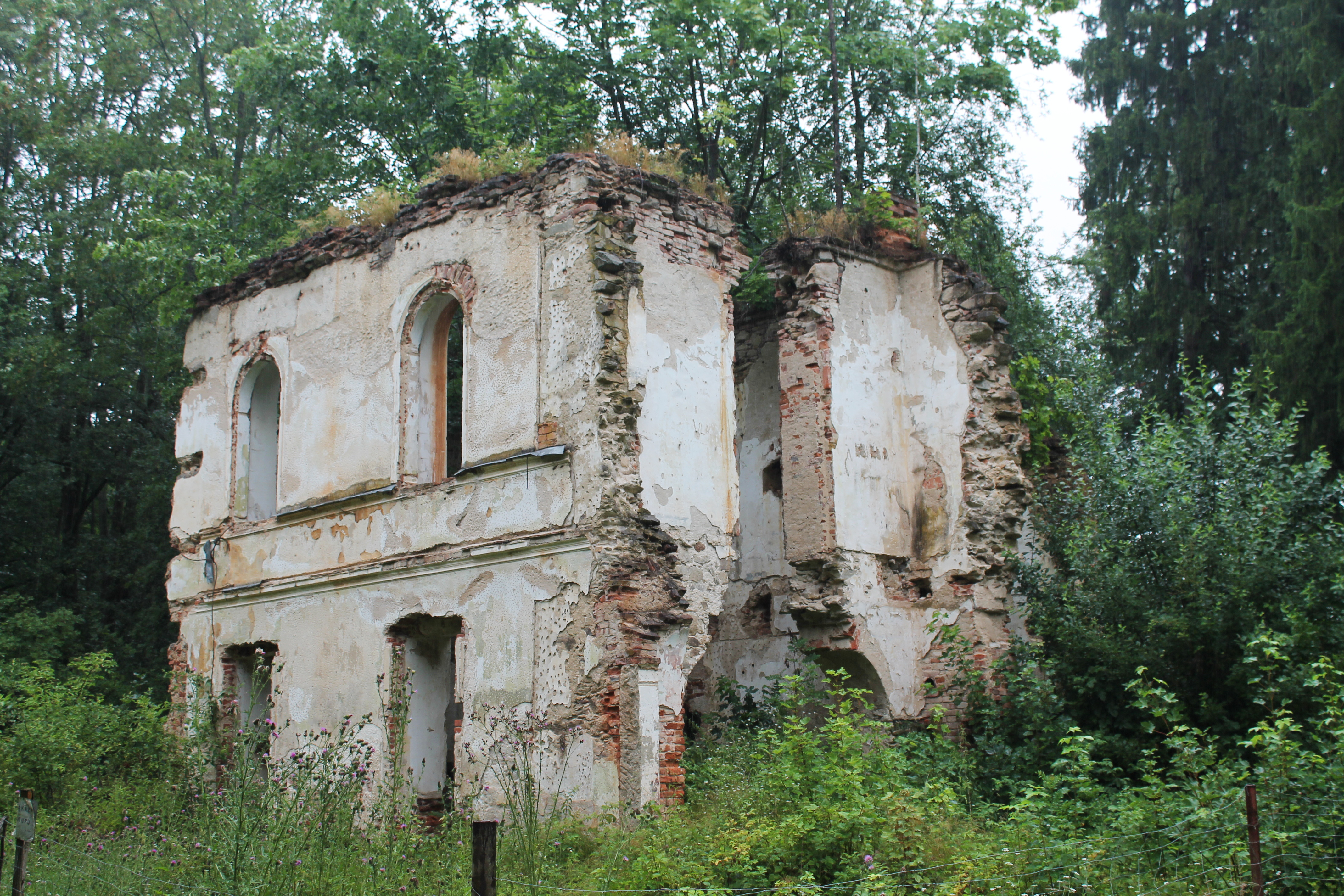 Maříž Castle, Slavonice, Jindřichův Hradec District, Czech Republic